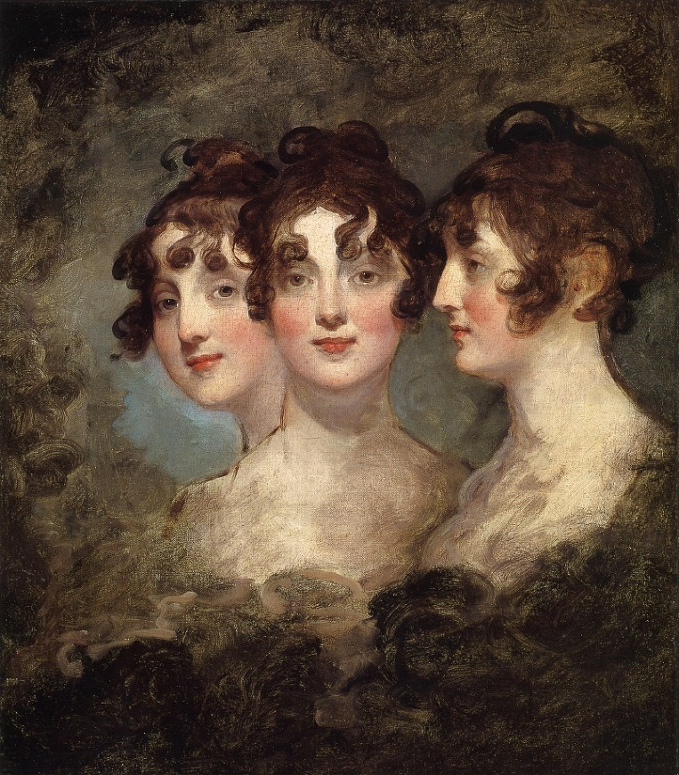 Oil painting, Metropolitan Museum of Art, NY.